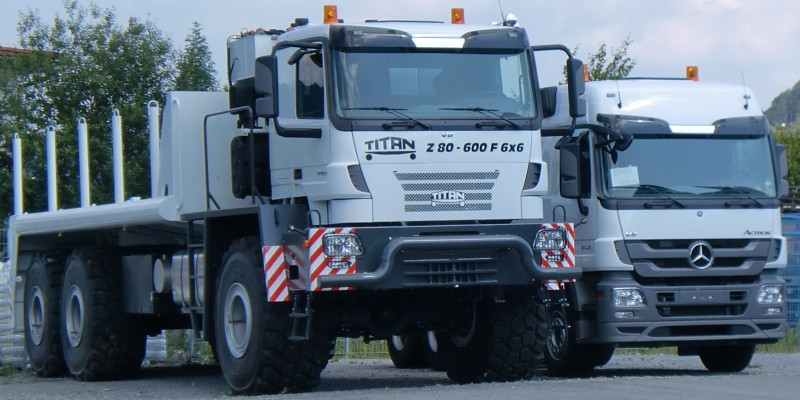 Prime Mover Titan Z80-600F6x6 next to a Mercedes-Benz Actros